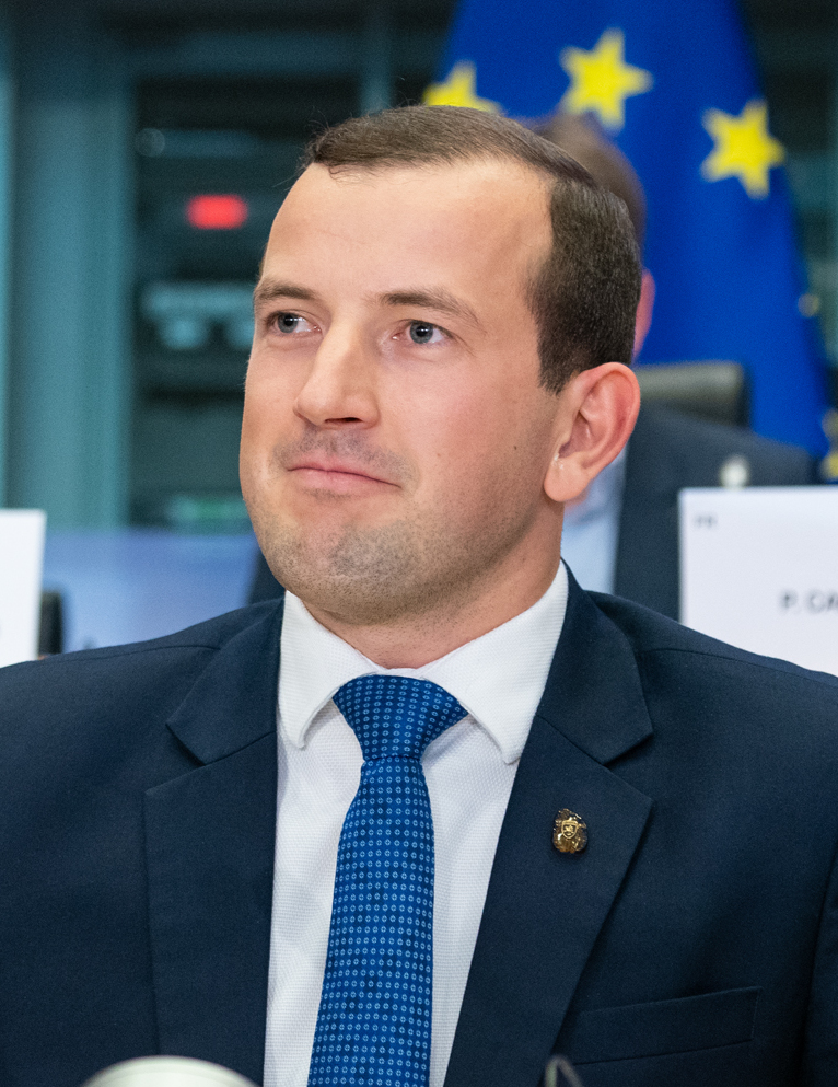 Before the European Parliament can vote the new European Commission led by Ursula von der Leyen into office, parliamentary committees will assess the suitability of commissioners-designate. On 23-26 May, more than 200,000,000 people in 28 EU countries went to the polls to elect members of the European Parliament, giving them a strong democratic mandate, including voting into office the new European Commission and examining the competencies and abilities of its commissioners-designate. Elected members of the European Parliament will also listen to their ideas and will assess their willingness to take concrete actions on the issues that Europeans care about. Each candidate commissioner is invited for a live-streamed, three-hour hearing in front of the committee or committees responsible for their proposed portfolio. The hearings will take place between Monday 30 September and Tuesday 8 October. This photo is free to use under Creative Commons license CC-BY-4.0 and must be credited: "CC-BY-4.0: © European Union 2019 – Source: EP". No model release form if applicable. For bigger HR files please contact: webcom-flickr(AT)